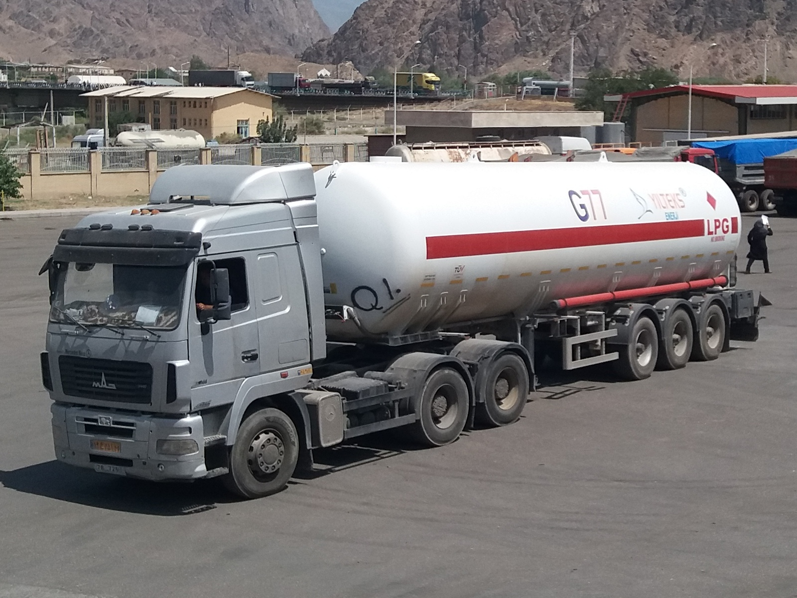 Armenian-Iranian border, Nurduz